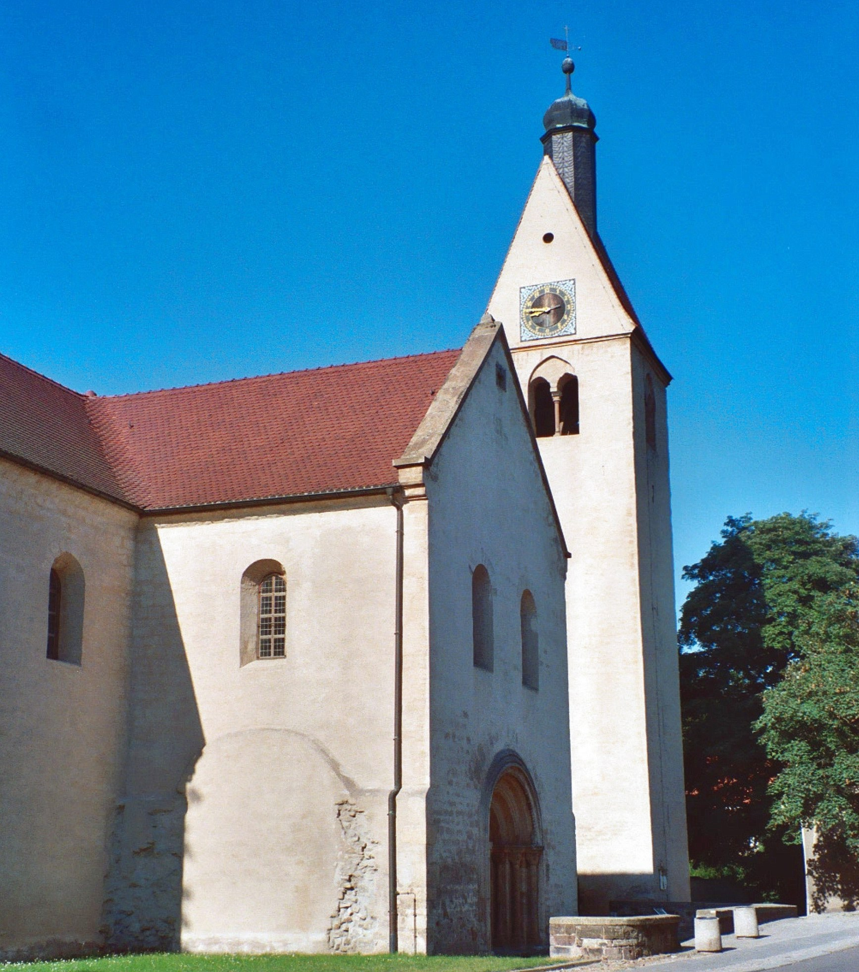 Merseburg, the church St. Thomae